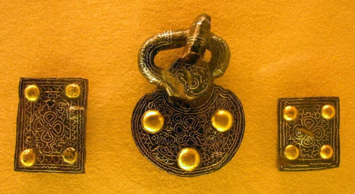 Alamannic belt buckles from the Alamannic graveyard of Weingarten, grave no. 377 of the 7th century. Finds exhibited at the Alamannenmuseum Weingarten near Ravensburg, Germany.